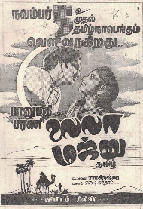 Poster for the 1949 South Indian Tamil film Bharani's Laila Majnu